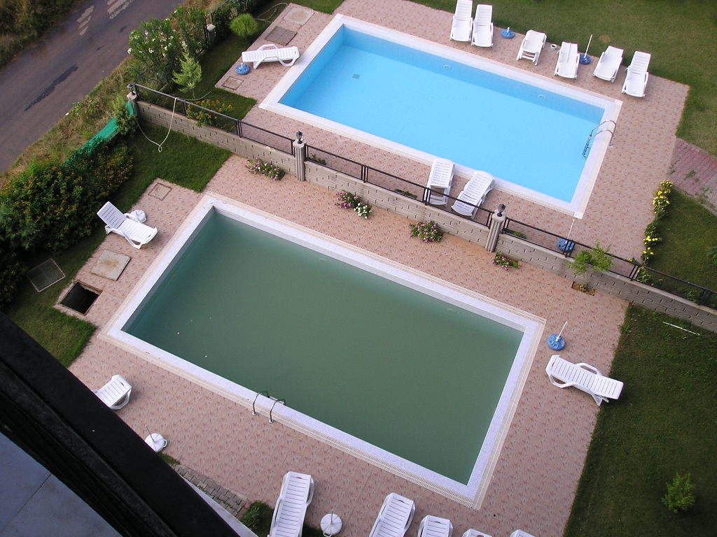 Two swimming pools on neighboring property, one with clean water, one with dirty water andrius_v110